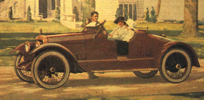 Copy of original advert for the Templar car